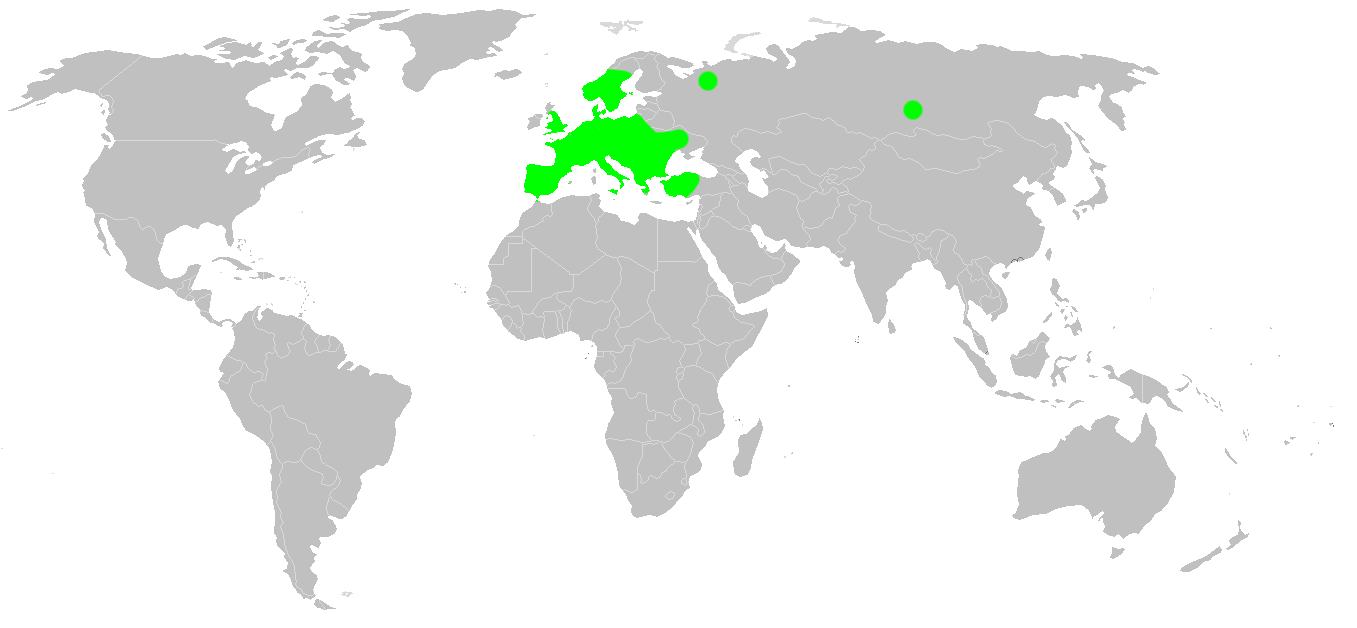 Known world distribution of Tegenaria ferruginea (Agelenidae). Data from British Arachnological Society, 2006